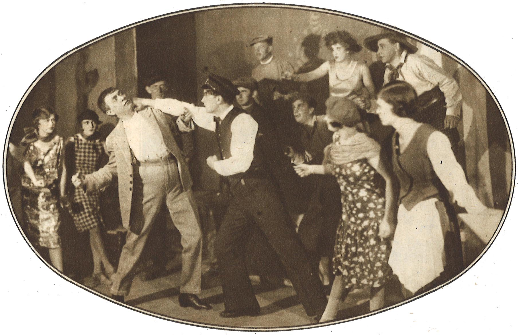 Scene from the Swedish play Styrman Karlssons flammor at the Hippodromen theatre in Malmö 1925. The two fighting actors are Richard Svanström and Felix Grönfeld.